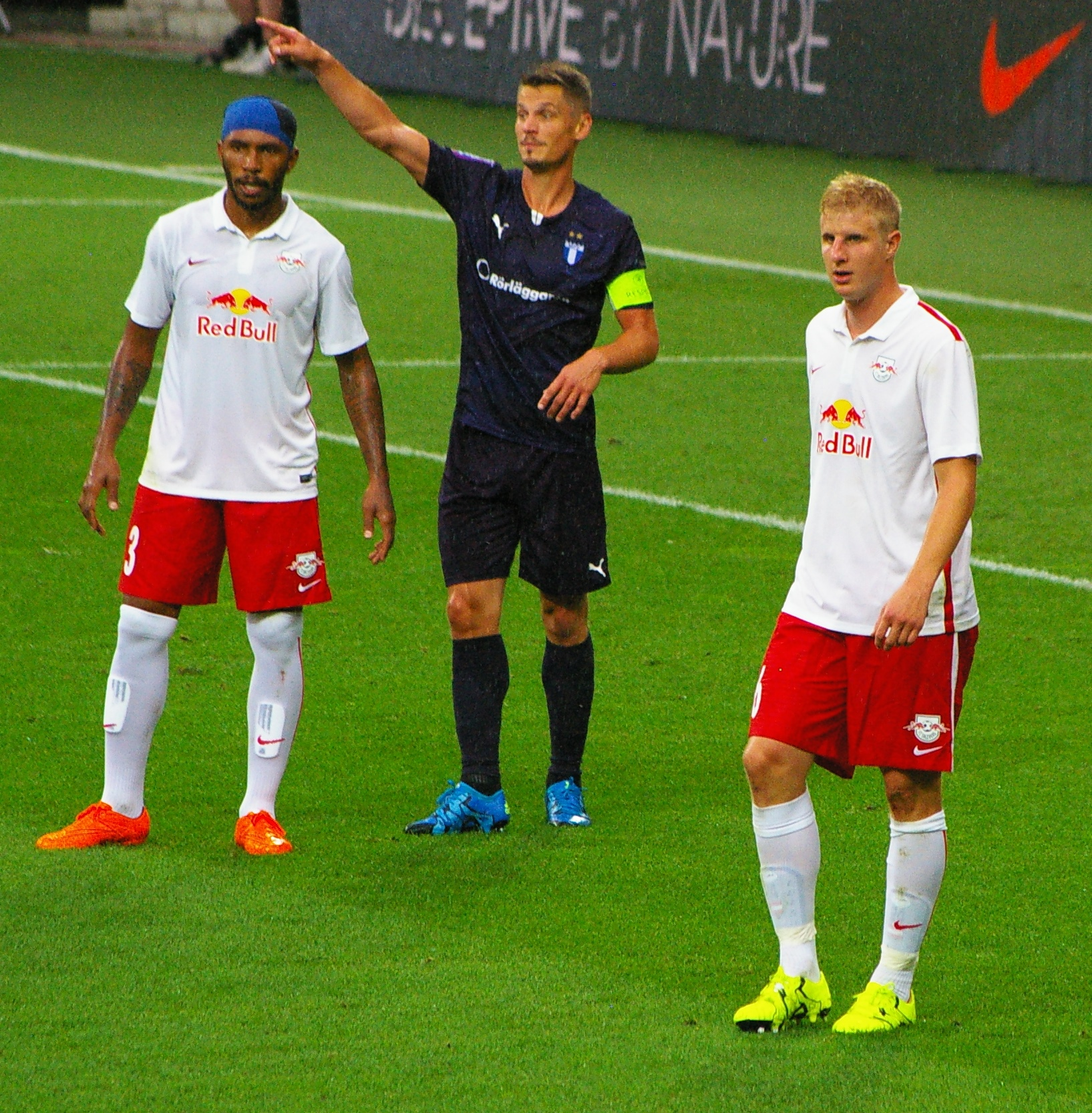 CL qualifing match 3rd round 1st leg